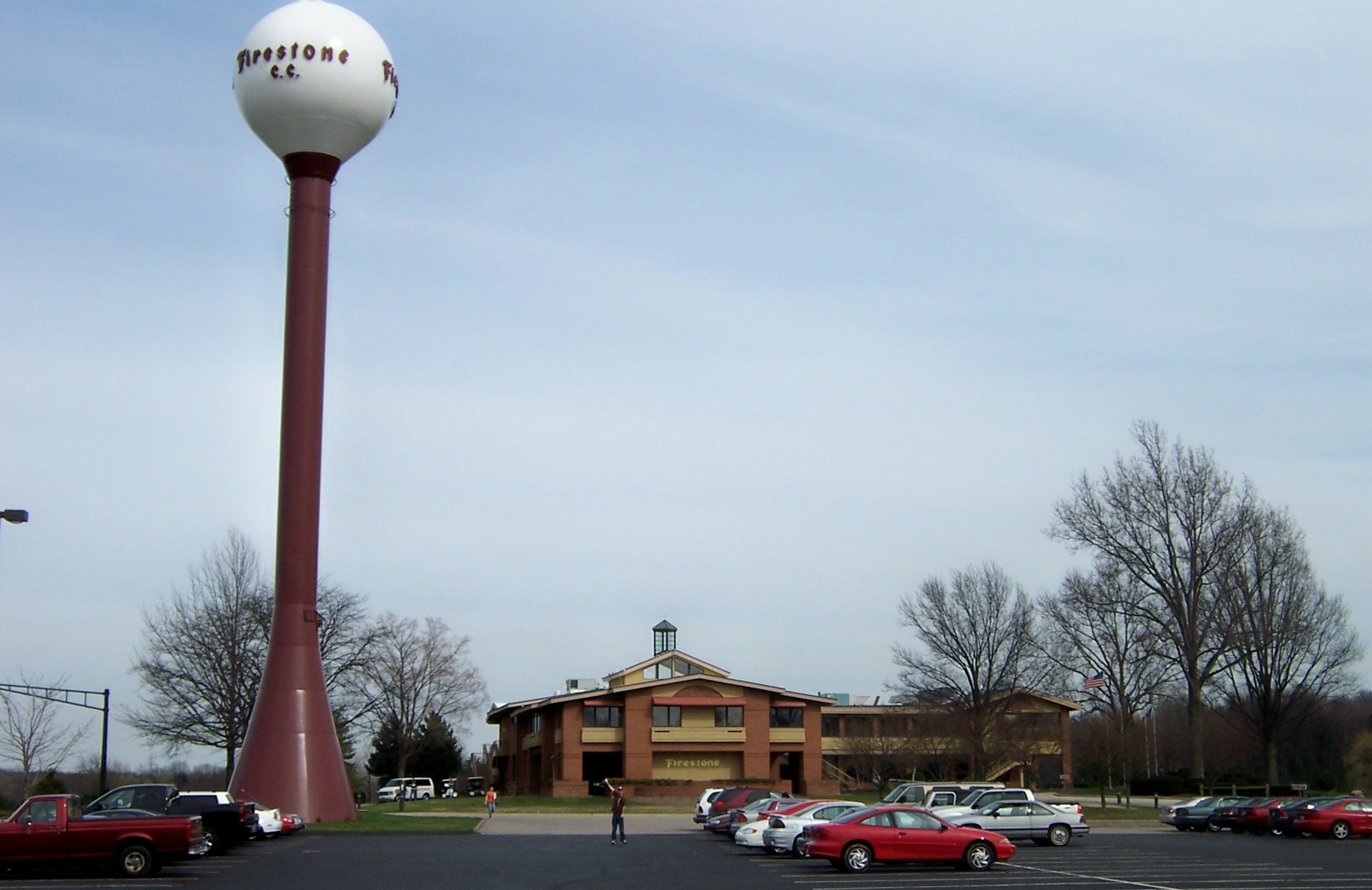 Firestone Country Club